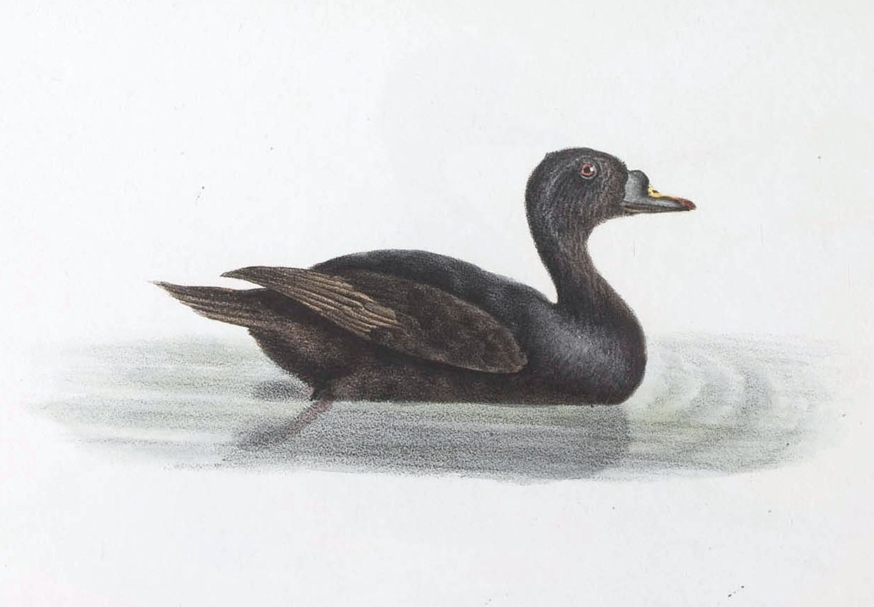 « Canard macreuse, vieux mâle Anas nigra » = Melanitta nigra (Common Scoter)